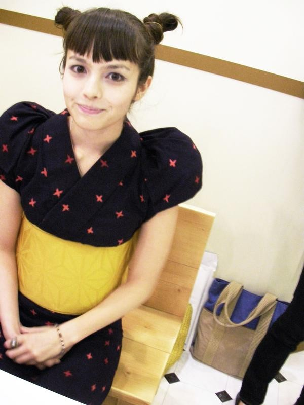 Olivia Lufkin in Japan Expo 2007